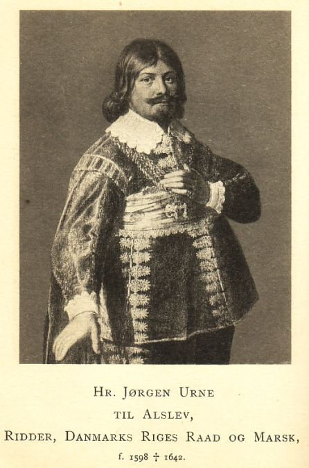 Picture of Jørgen Urne til Alslev (1598 - 1642)